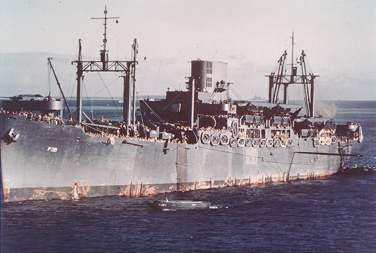 The U.S. Navy troop transport USS President Adams (AP-38) probably at Nouméa, New Caledonia, as seen from the aircraft carrier USS Wasp (CV-7) on the eve of the Guadalcanal-Tulagi invasion, 4 August 1942. Note the red lead primer showing through the boot topping along her waterline and the large crowd of men on her decks.